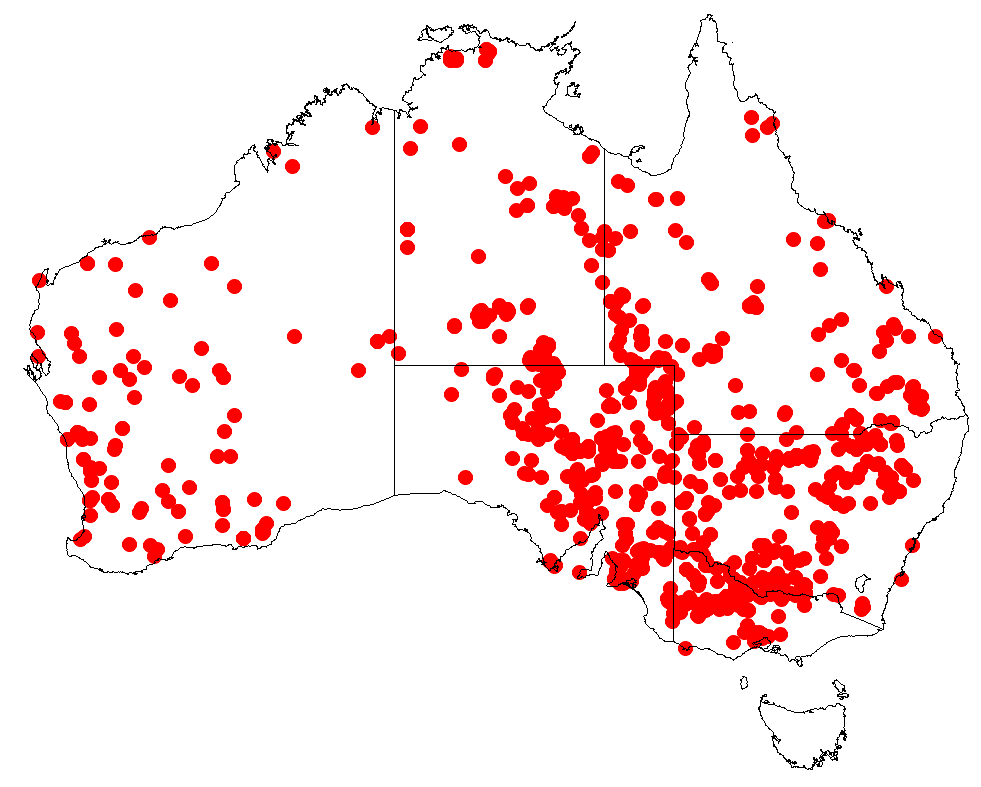 Marsilea drummondii Occurrence data from Australasian Virtual Herbarium downloaded 10 November 2018 from